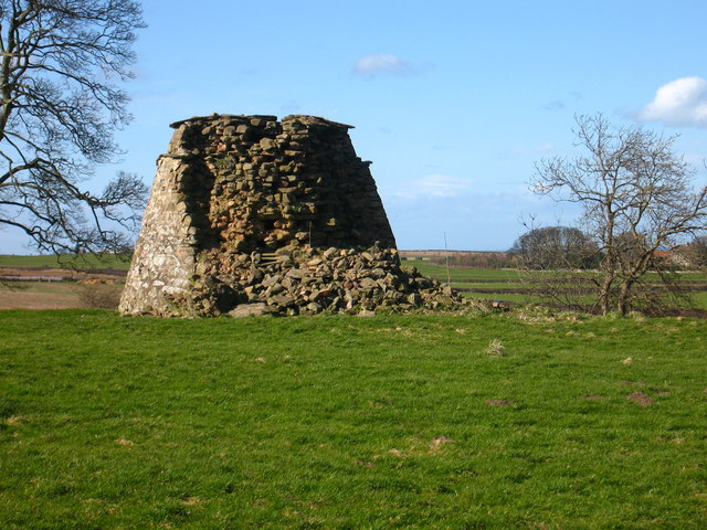 Buckton Dovecote Beehive dovecote, in a state of partial collapse at Buckton, Northumberland.